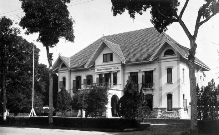 The telephone office of the Deli Railway Company (DSM)